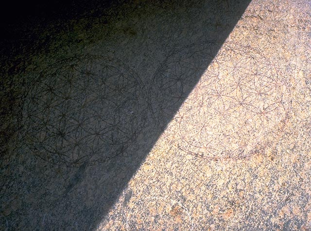 Ornament resembling the Flower of Life found at the Temple of Osiris at Abydos, Egypt